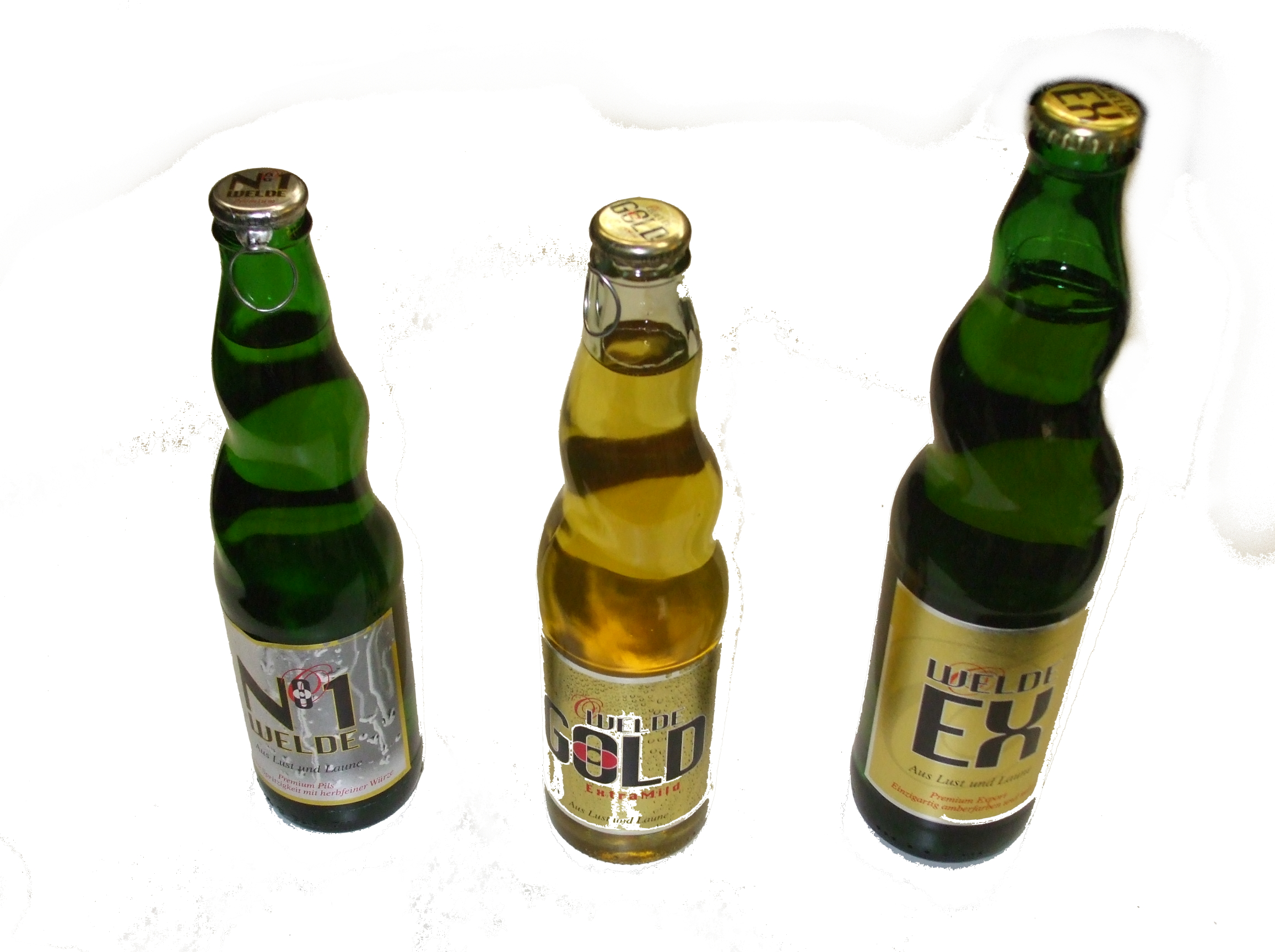 Beerbottle swing